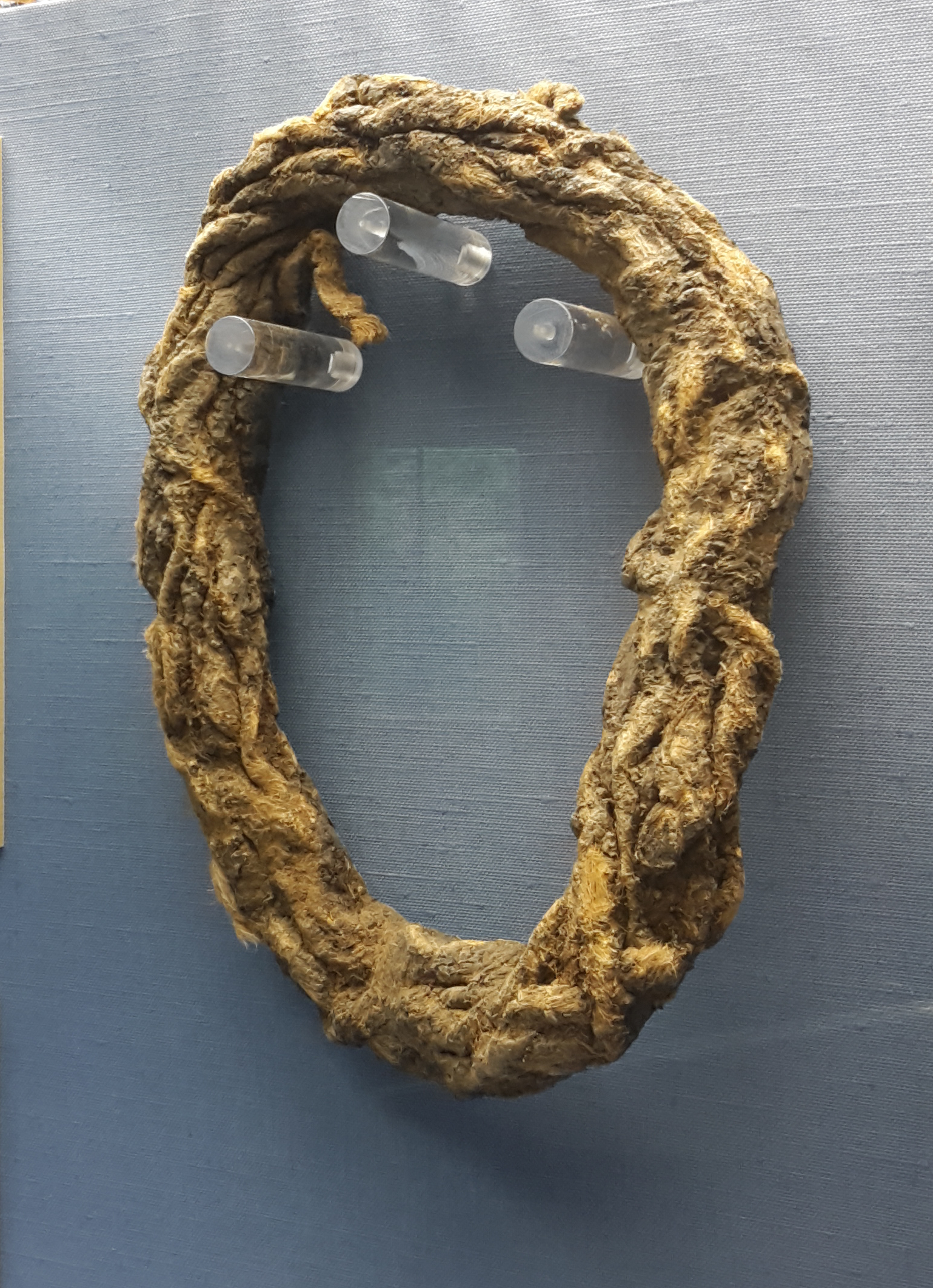 Pitch Garland Type II (Rope garland). Germany, 16th/17th Century. Kunstsammlungen der Veste Coburg, Germany.